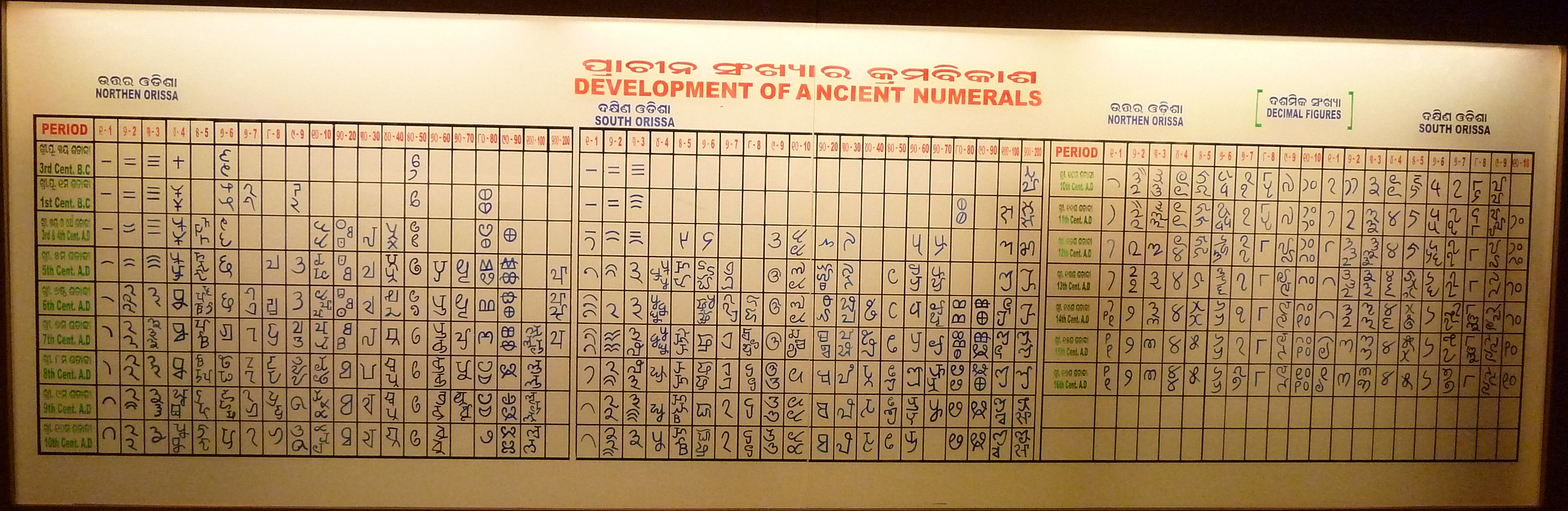 This shows the development of ancient numerals in oriya. This photo was taken in State museum, Bhubaneswar